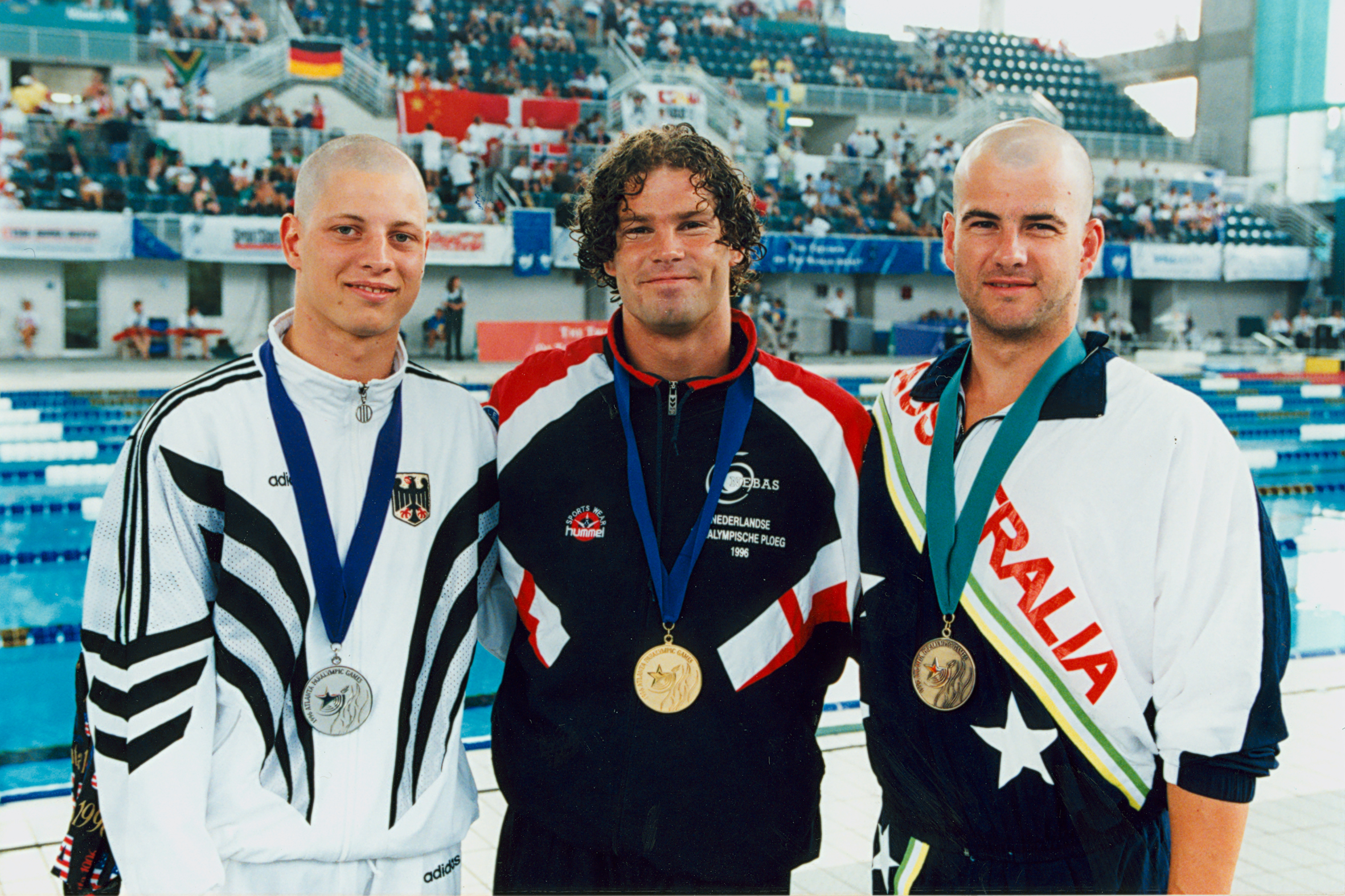 Paralympic medalists (left to right) Stefan Loeffler, Alwin de Groot and Scott Brockenshire.